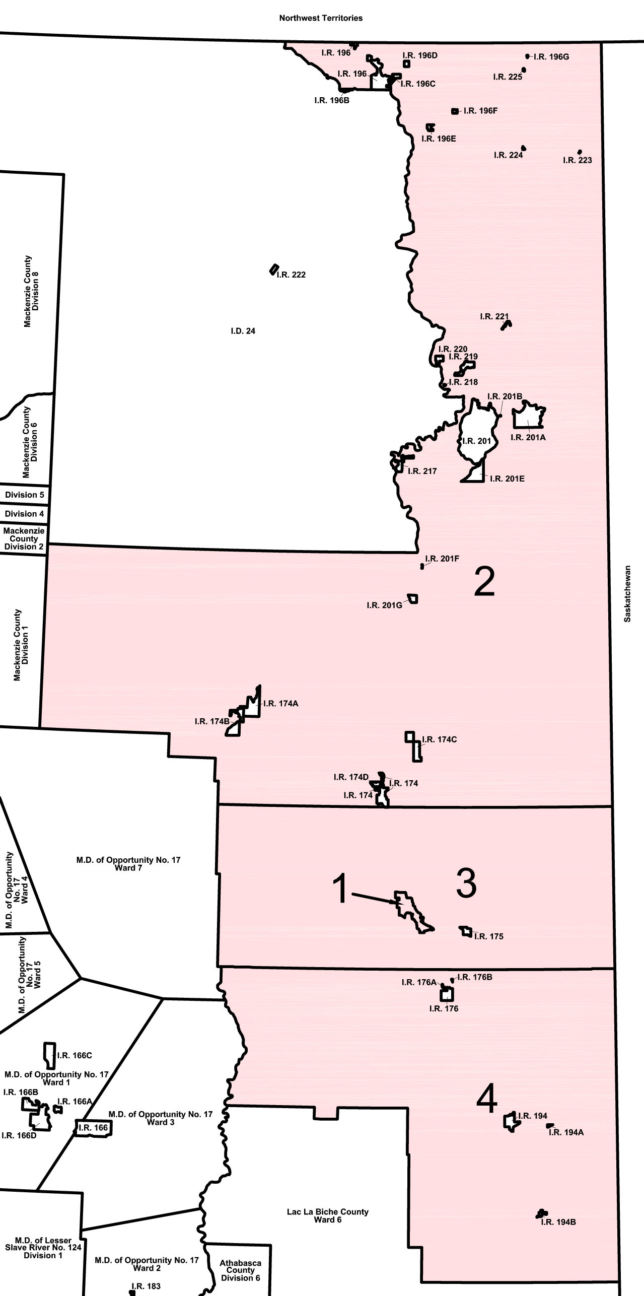 Municipal electoral wards in and around the Regional Municipality of Wood Buffalo in 2010.